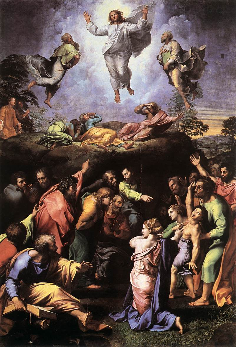 A 19th-century French engraving after Raphael's Transfiguration displayed at the Dadiani museum in Zugdidi, Georgia